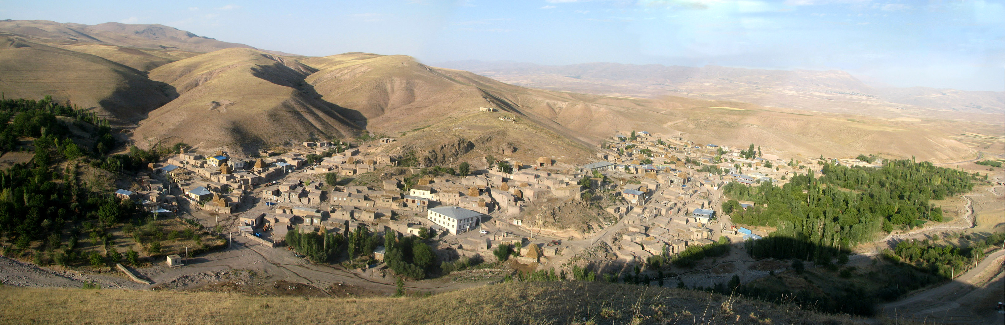 Nilaq (Leylə) is village in the Azerbaijan (Iran), Province Ardebil, Kowsar County near kivi.